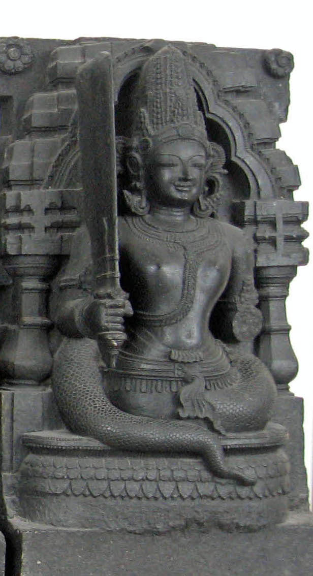 Ketu taken at the British Museum